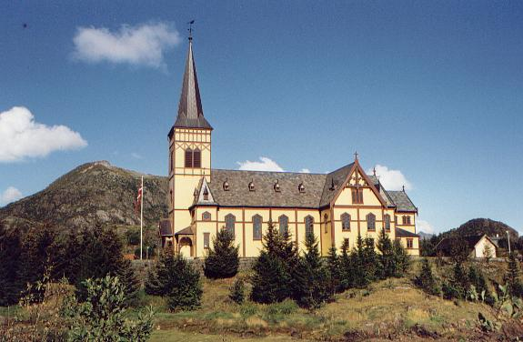 Vågan Church (Lofoten Cathedral) in Kabelvåg, Nordland in Norway from 1898. Wooden church in Gothic revival style. Architect Carl Julius Bergstrøm.